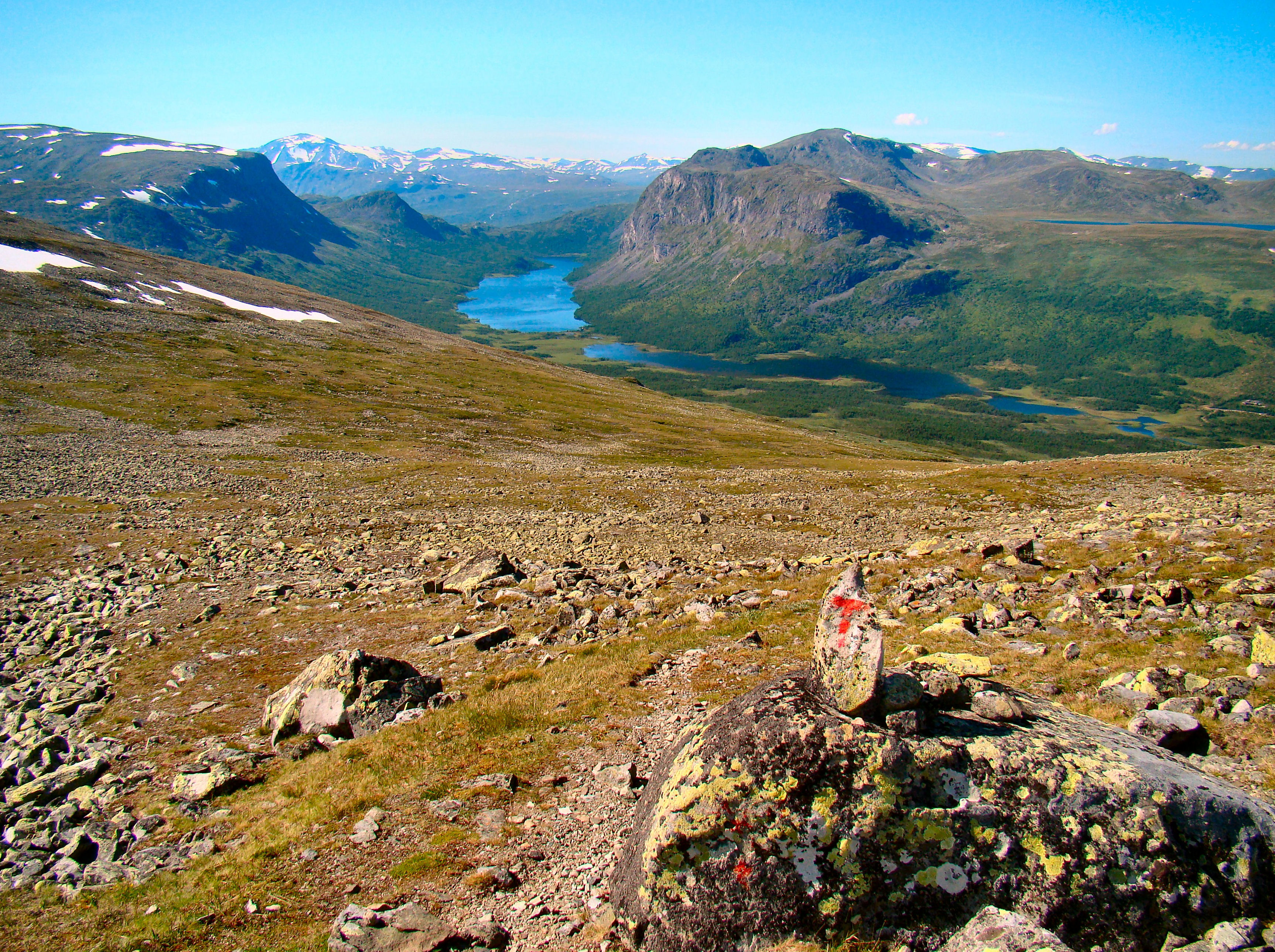 A photo of Sikkilsdalen Valley as seen from the mountain Vangstulkampen. The red Ts on the rocks are markings indicating a trail maintained by the Norwegian Trekking Association.